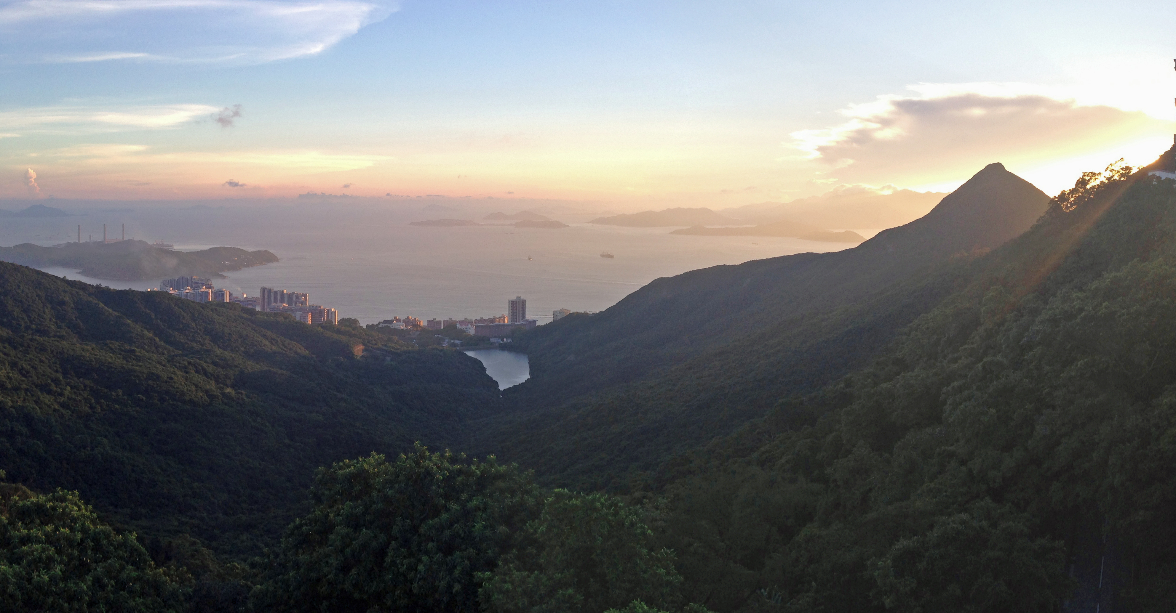 Sunset over the West Lamma Channel viewed from the Peak Tower in Hong Kong.